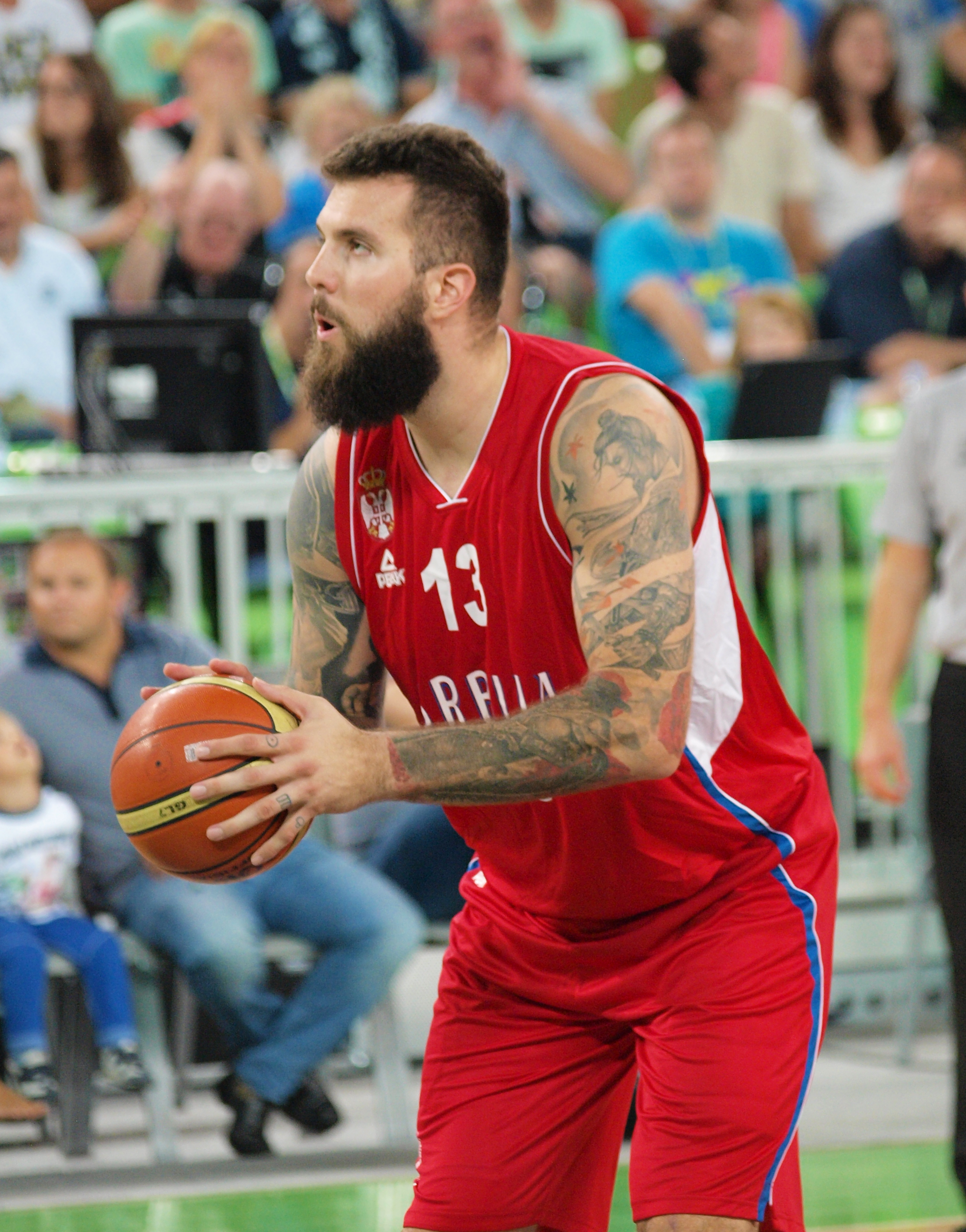 Miroslav Raduljica playing for Serbia vs Slovenia, friendly match august 2015 in Ljubljana.